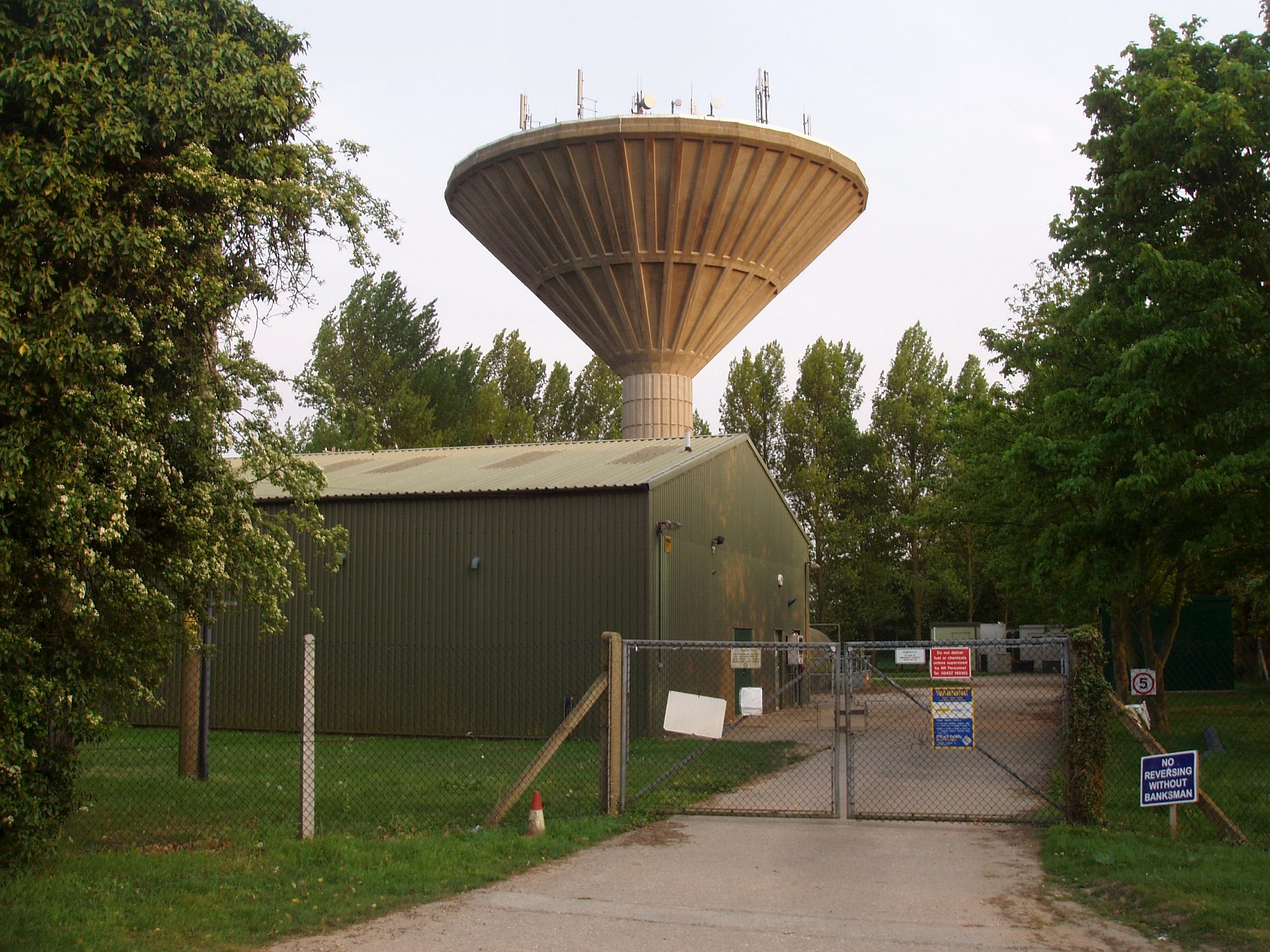 The Ludham water tower, Catfield, Norfolk, UK, as seen in 2012. Built in 1980, this was the first British water tower to be made as a concrete shaft. It is close to the site of the Ludham Borehole, drilled by the Royal Society to a depth of 50 m for geological research in 1959. Analysis of the sediment samples greatly improved our understanding of the Pliocene and Pleistocene geology of East Anglia, and helped correlate the local geology with strata of equivalent age in the North Sea basin and north-west Europe.